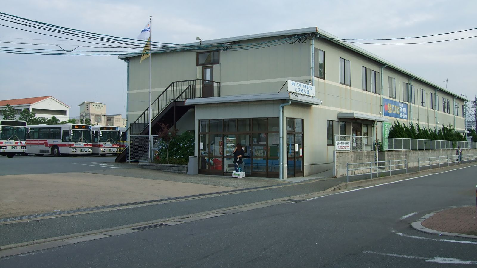 Nishitetsu bus Atagohama Depot